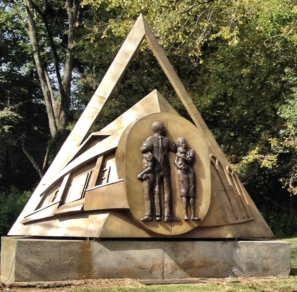 People Family and Community sculpture by Ayokunle Odeleye in Peoplestown, Atlanta